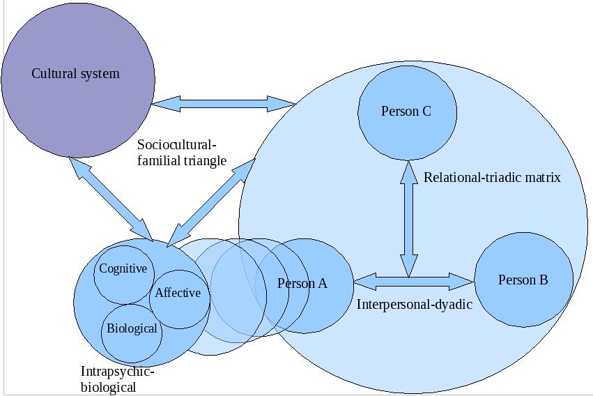 Personality systematics of Jeffrey J. Magnavita. Based on information from Magnavita, JJ (2009) Psychodynamic Family Psychotherapy: Toward Unified Relational Systematics. In Bray, James H., Stanton, Mark (Eds.) The Wiley-Blackwell Handbook of Family Psychology. John Wiley and Sons, pp. 240-248